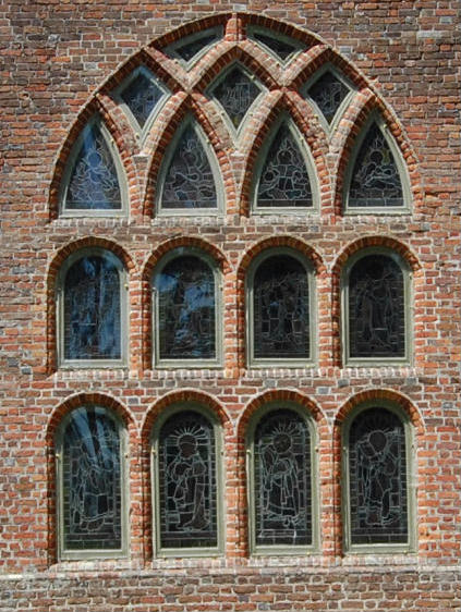 Newport Parish East Window